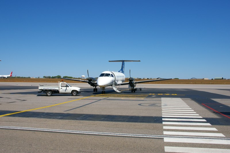 Airnorth (VH-ANB) Embraer EMB 120 Brasilia at Darwin International Airport